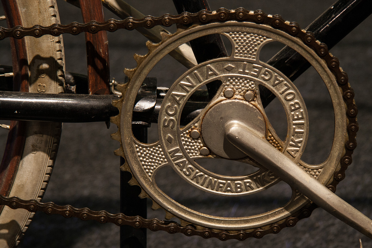 Bicycle manufactured by Maskinfabriks-aktiebolaget Scania. Exhibited at Norges Varemesse in 2016.